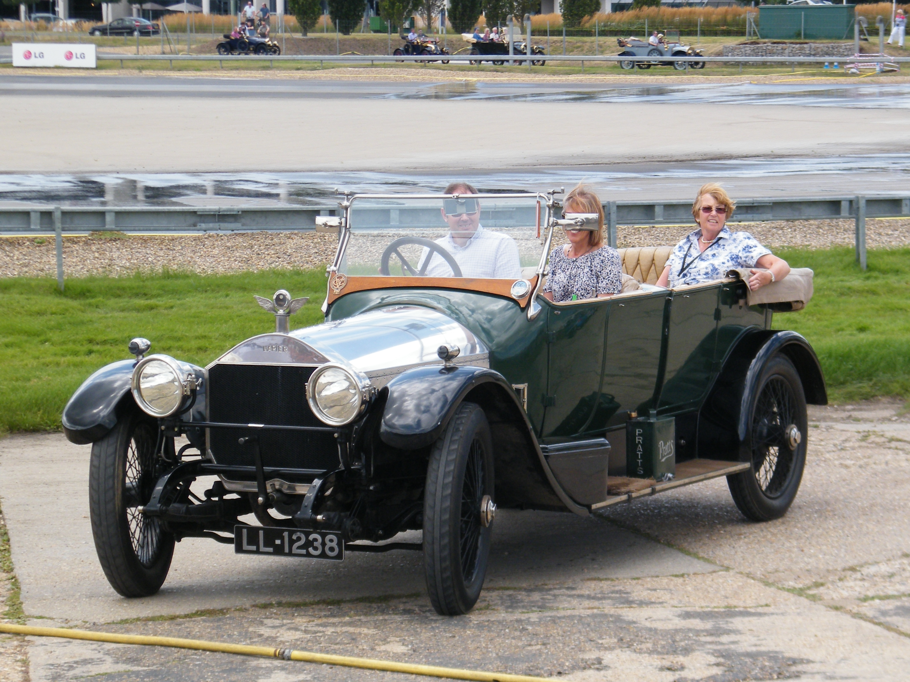 1914 Napier 30-35 Torpedo tourer LL1238 4740 cc Great War 100 Brooklands Weybridge 3 August 2014